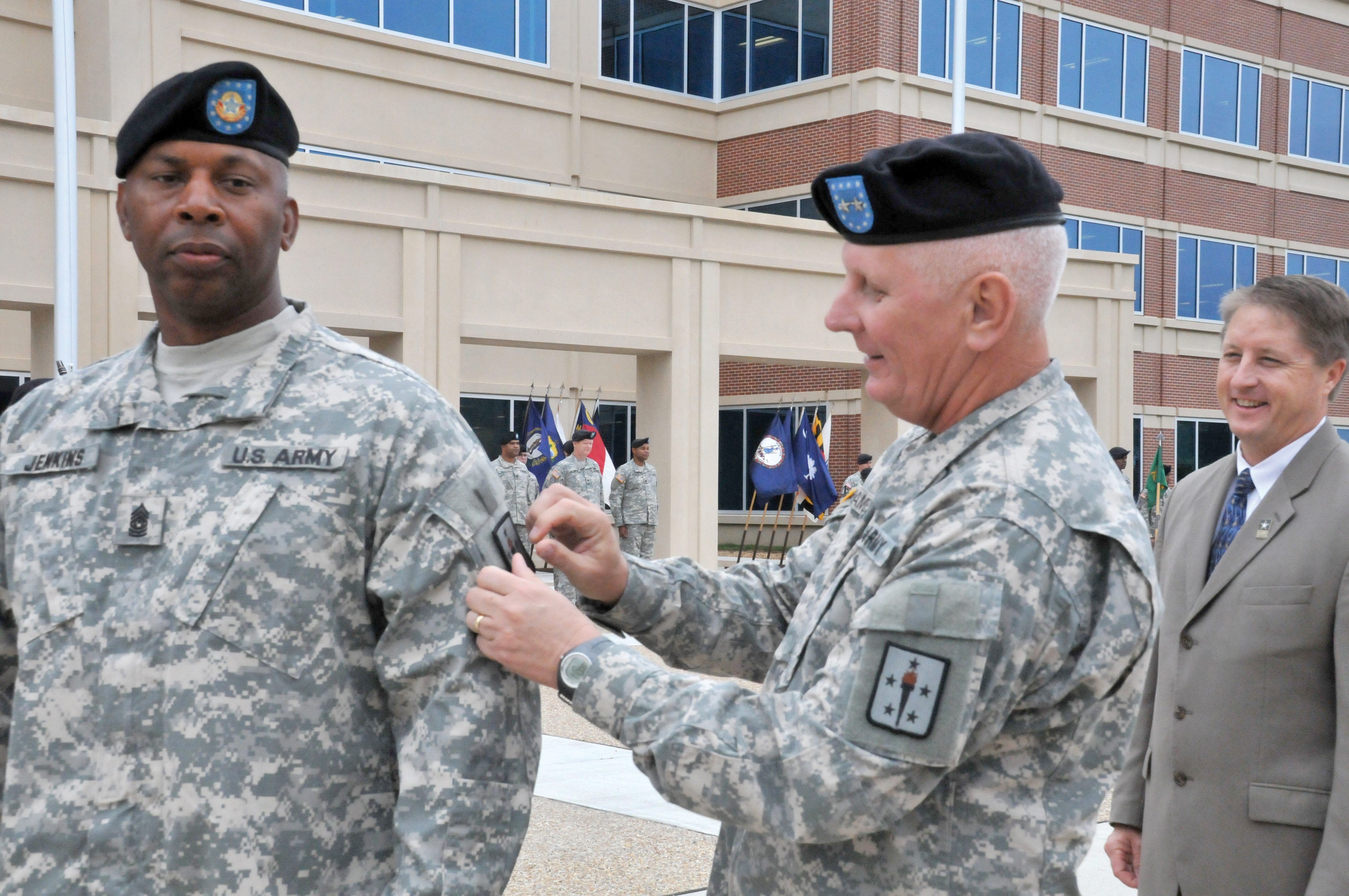 Maj. Gen. James E. Chambers, Combined Arms Support, Command Sustainment Center of Excellence and Fort Lee commanding general, replaces the unit patch of Command Sgt. Maj. C.C. Jenkins, Combined Arms Support Command, Sustainment Center of Excellence and Fort Lee command sergeant major at the SCoE Patch Ceremony Sept. 25, at the SCoE headquarters building.